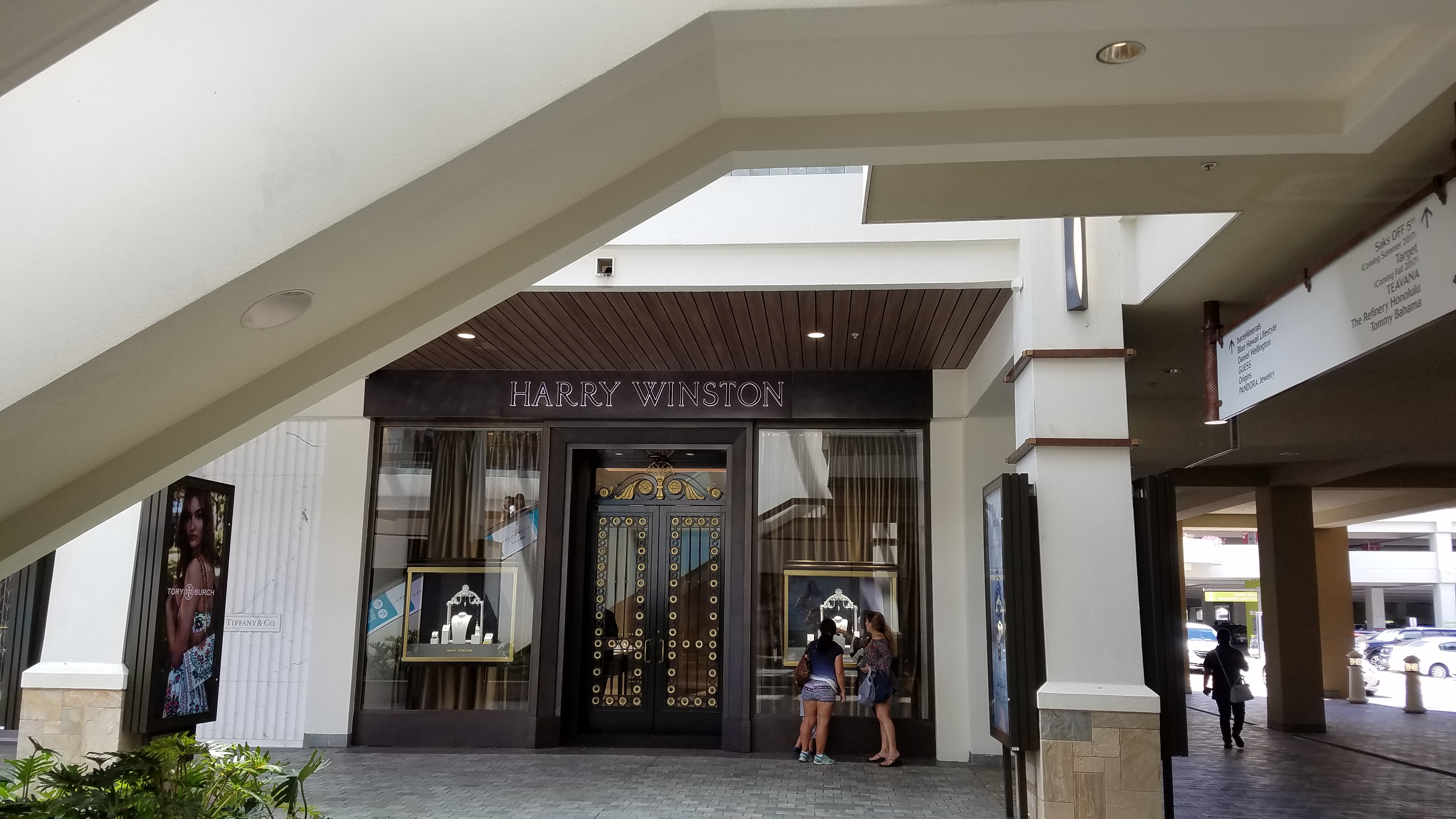 Harry Winston store at Ala Moana Center in Honolulu, Hawaii.